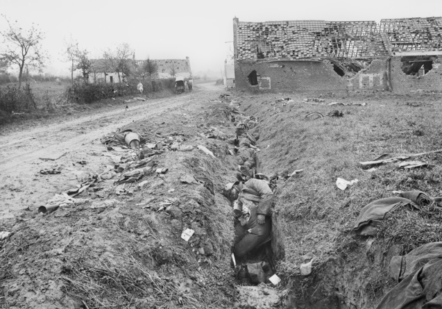 Aftermath of the fighting between Australian and German forces around Montbrehain, October 1918